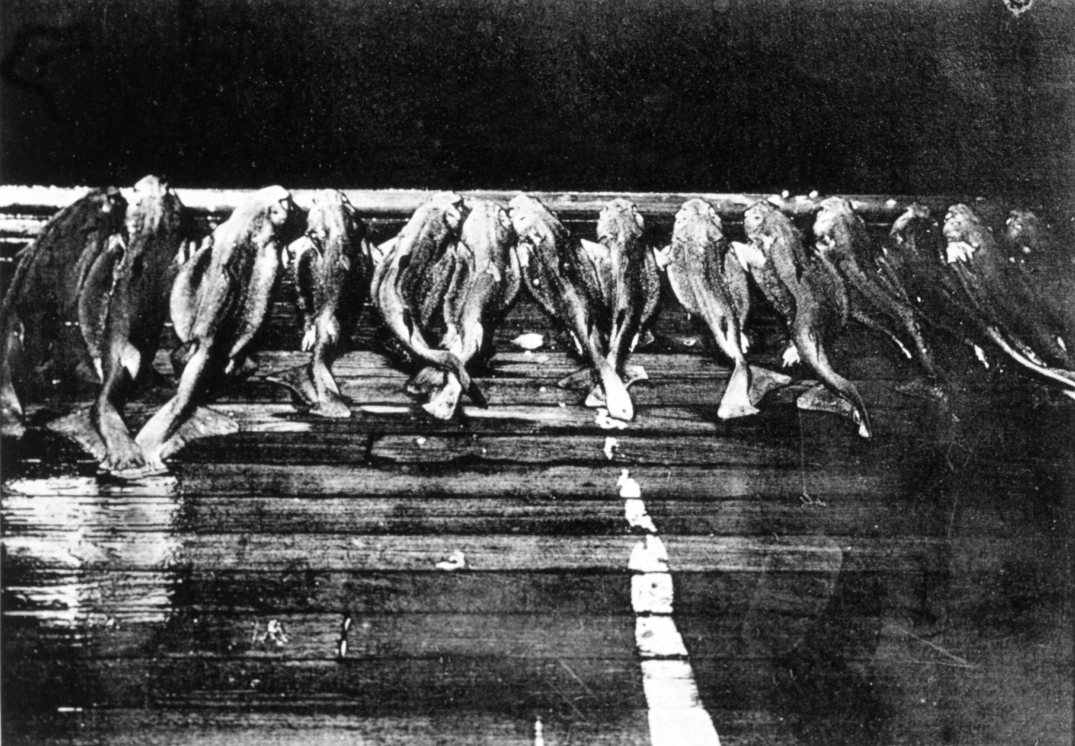 A good catch of large sharks from great depth. These fish were caught on longline set at 1440 meters depth. The species is Centroscymnus coelolepis. Plate VII, print 10. In: "Results of the Scientific Campaigns of the Prince of Monaco." Vol. 89.